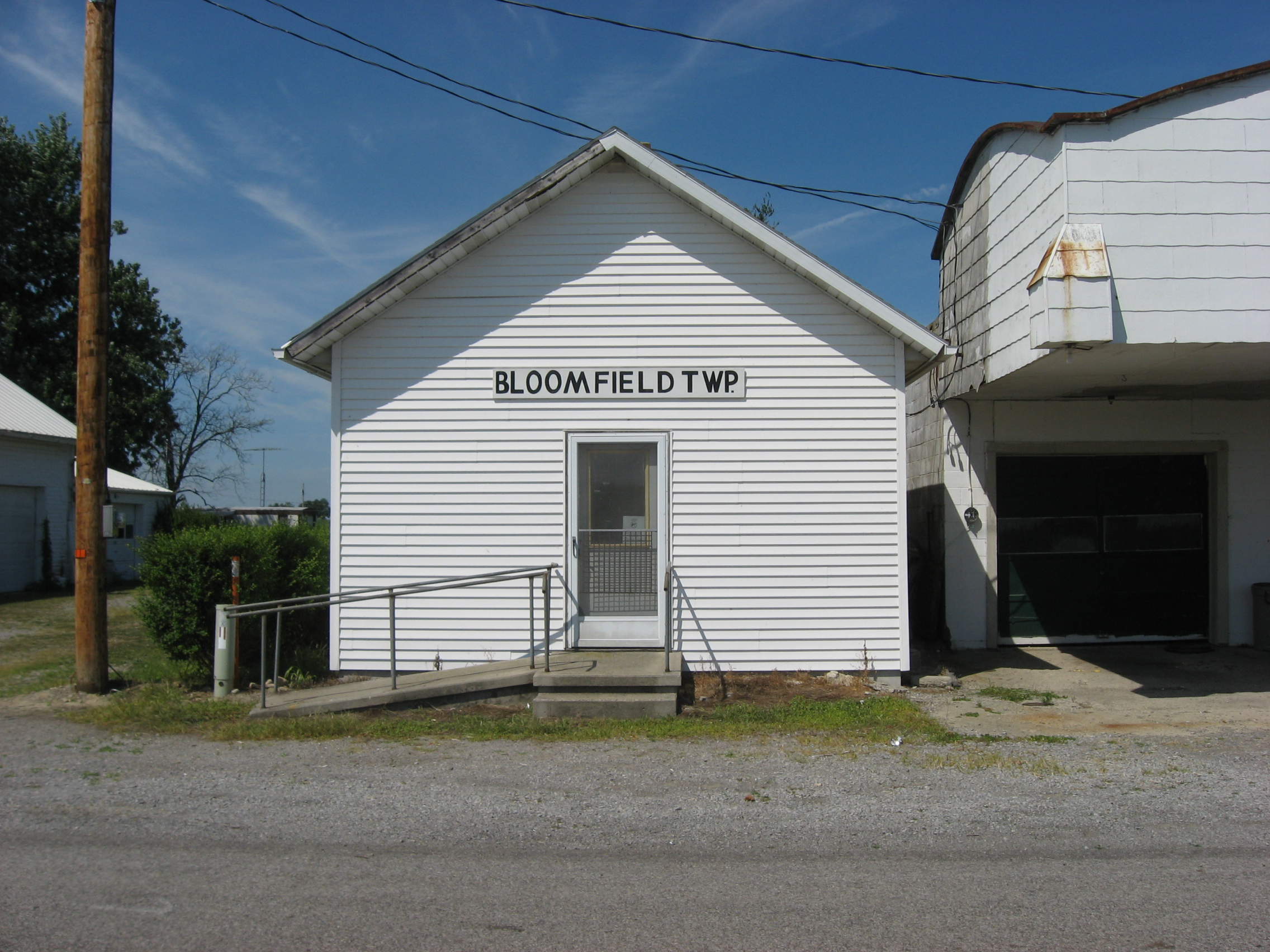 Bloomfield Township Hall in Bloom Center, located in Logan County, Ohio, United States. The hall lies along County Road 21, just north of the County Road 60 intersection.